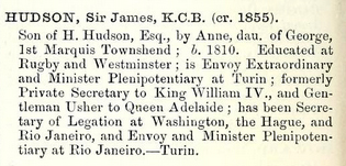 Sir James Hudson (1810 – 1885) listing in Edward Walford's (1823–1897), 1860 published The county families of the United Kingdom; or, Royal manual of the titled and untitled aristocracy of Great Britain and Ireland. p. 328.